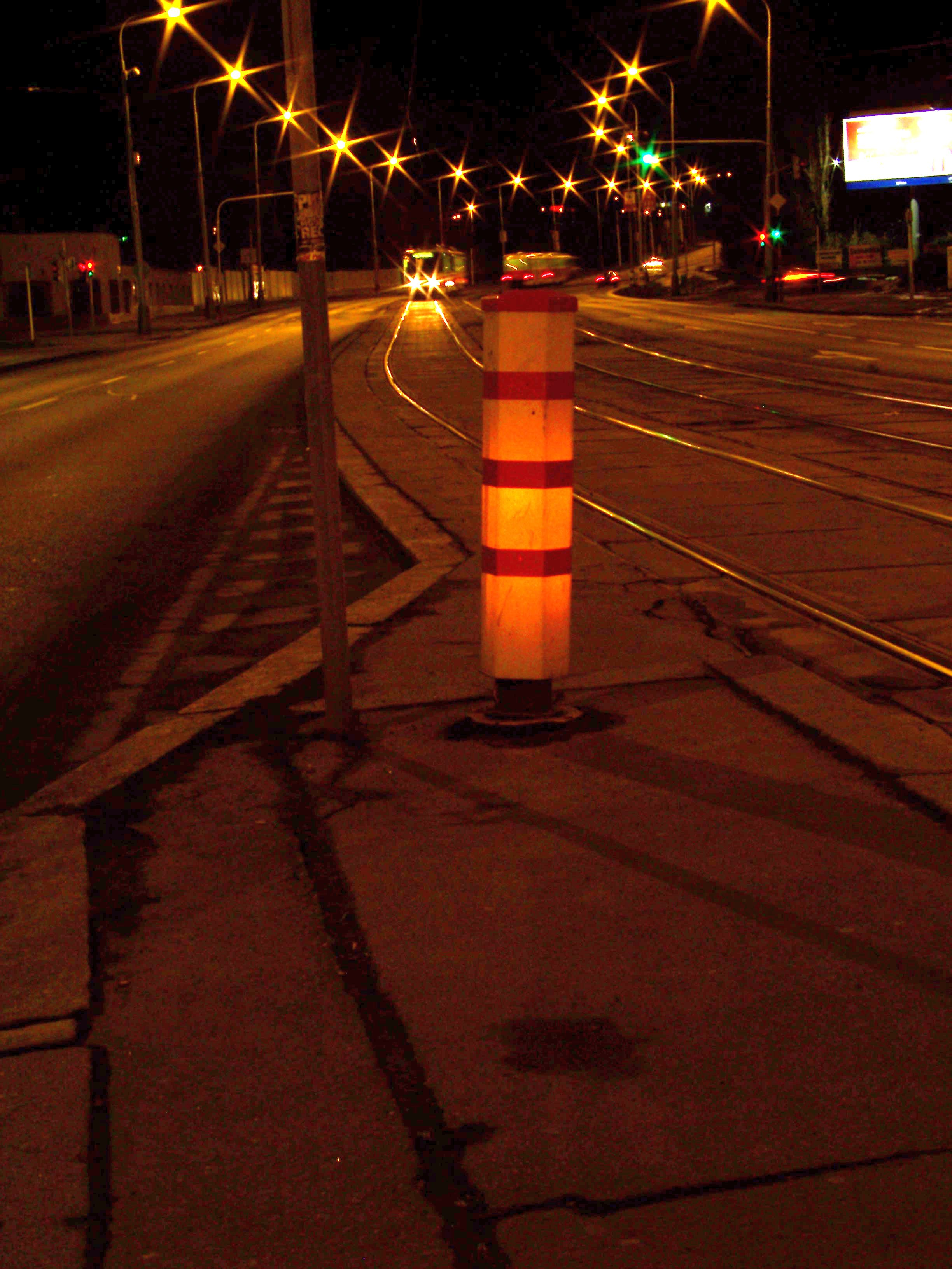 Záběhlice, Prague, the Czech Republic. Švehlova Street, tram stop Zahradní Město.